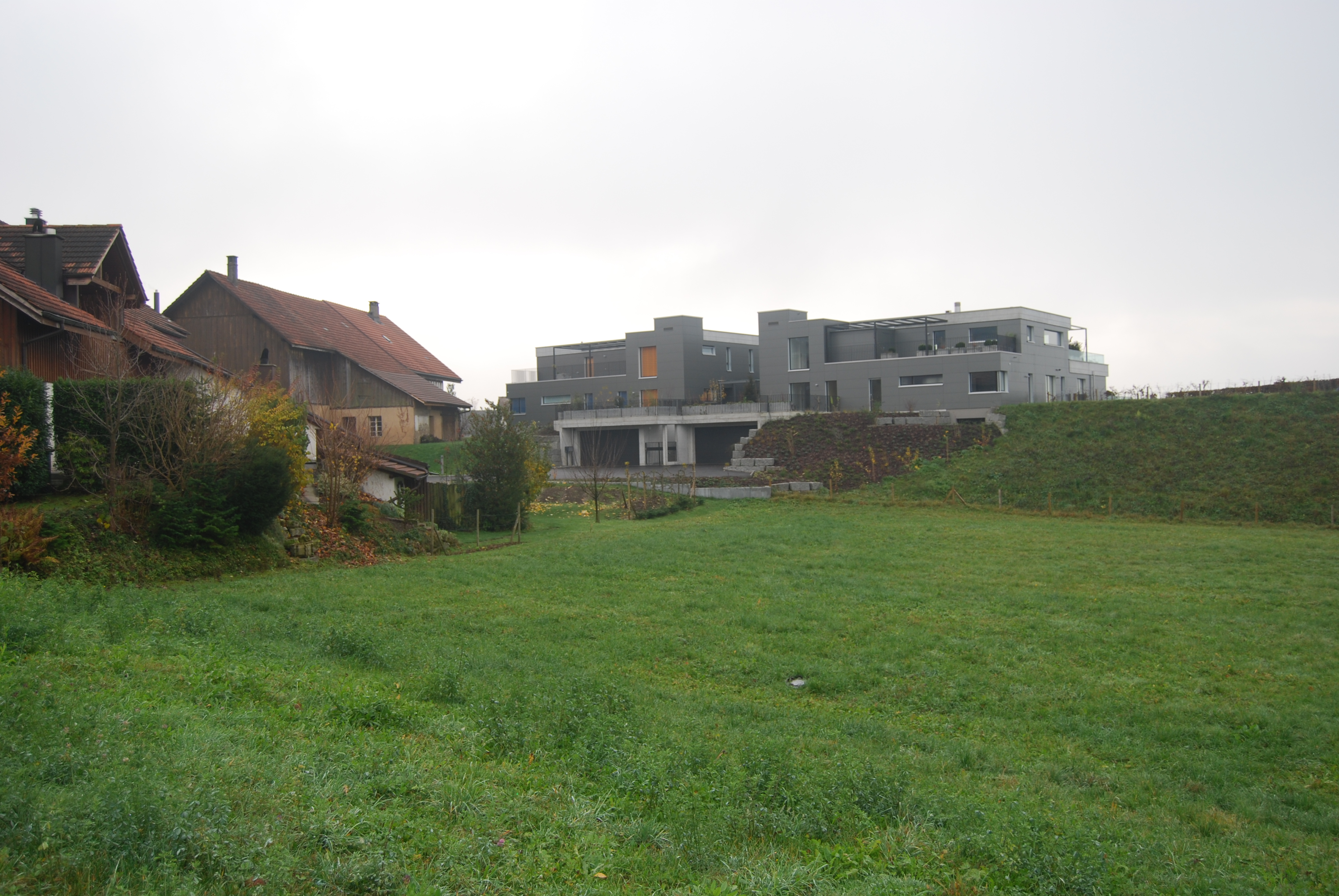 Oberrohrdorf, canton of Aargau, SwitzerlandEsperanto: Oberrohrdorf, Kantono Argovio, Svislando